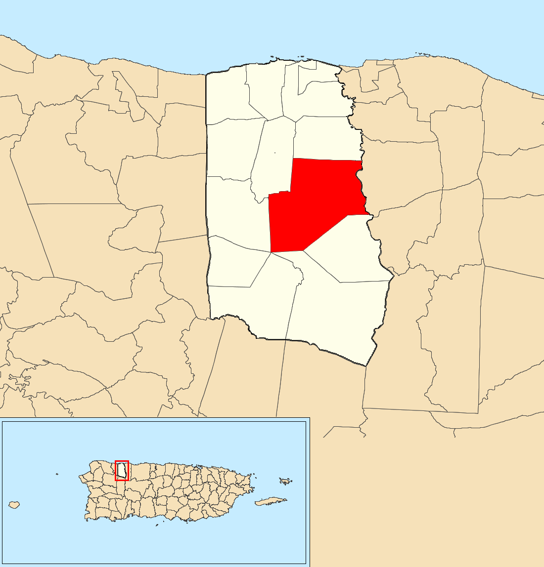 Abra Honda, Camuy, Puerto Rico locator map